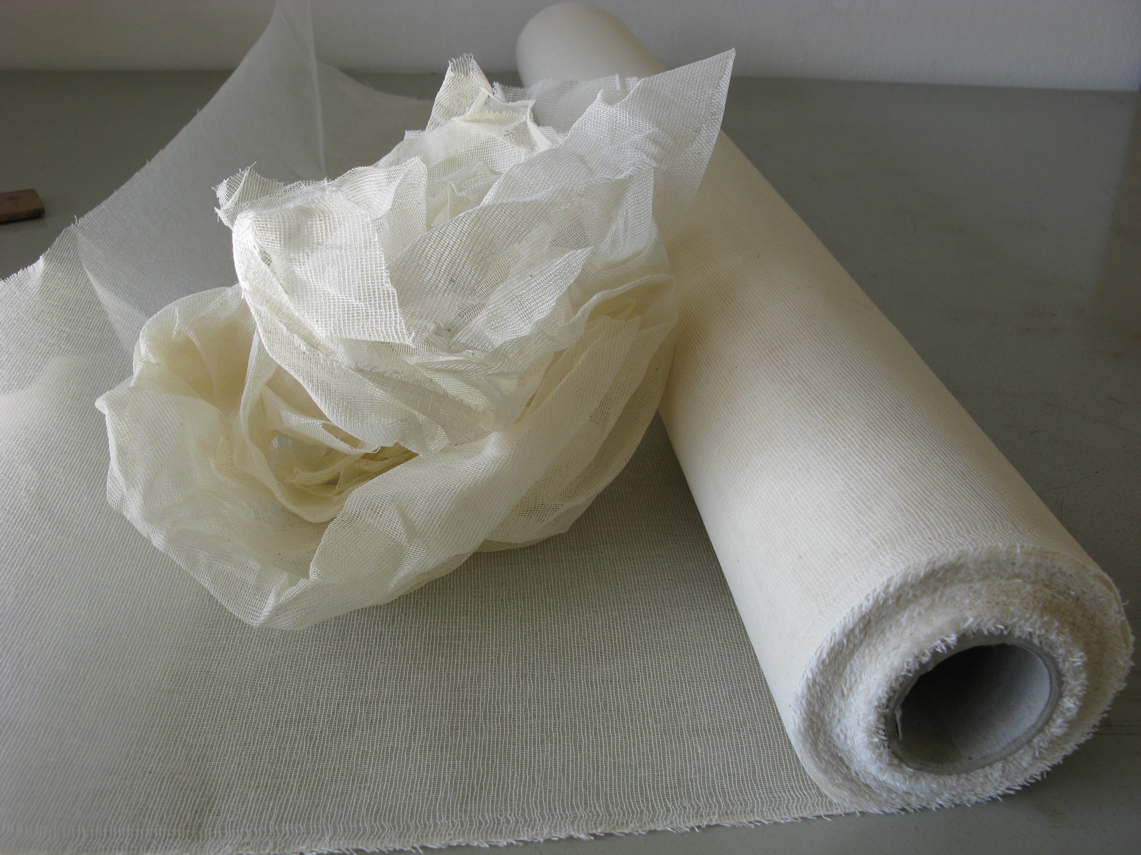 Tarlatan (printing muslin)